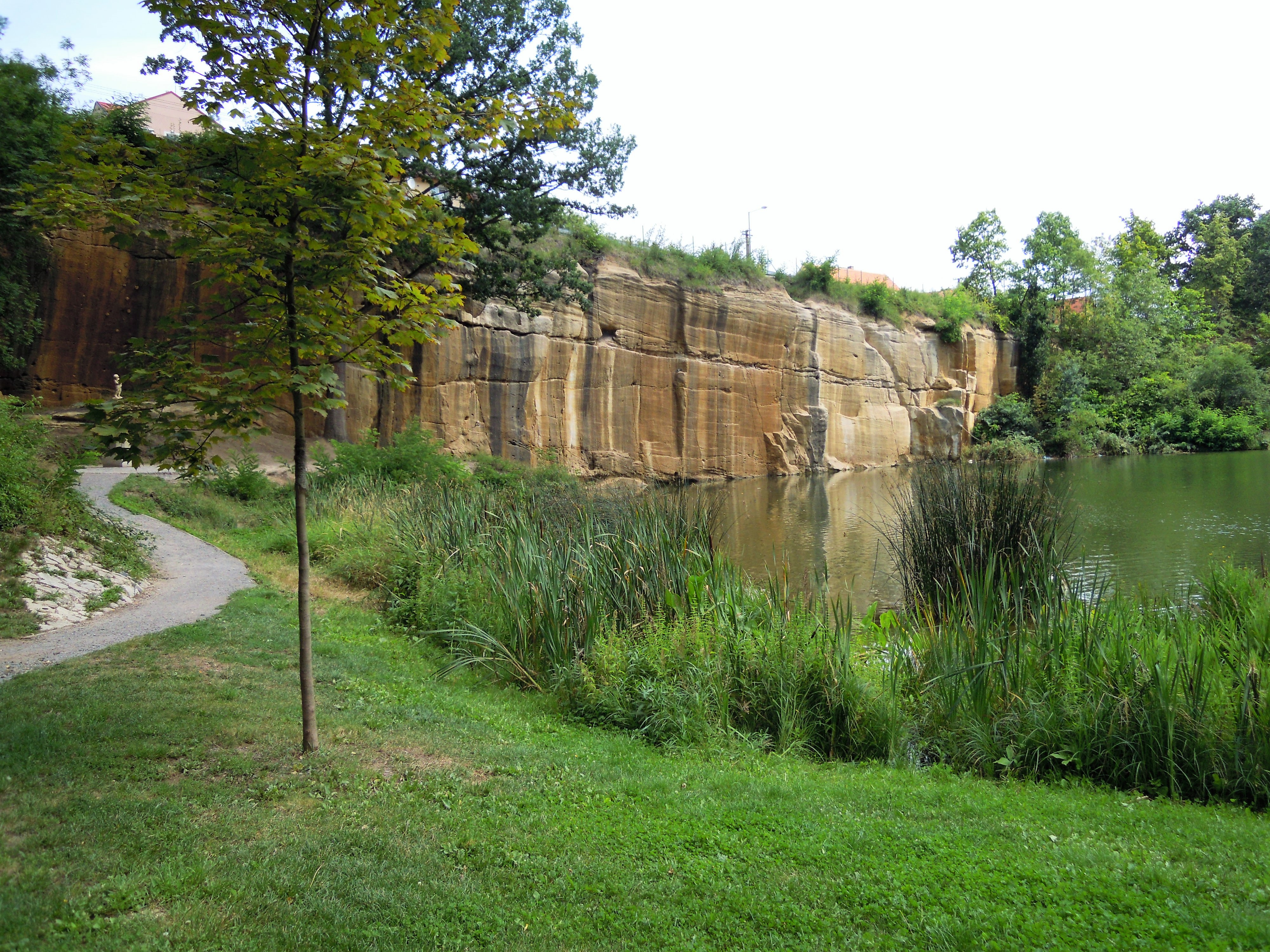 Košutka, Pilsen - Pond in the place of the defunct stone quarry